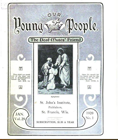 The front page of 'Our Young People' from a January 1920 issue